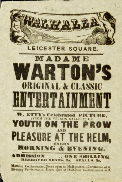 Handbill for a Tableau Vivant performance of William Etty's Youth on the Prow, and Pleasure at the Helm